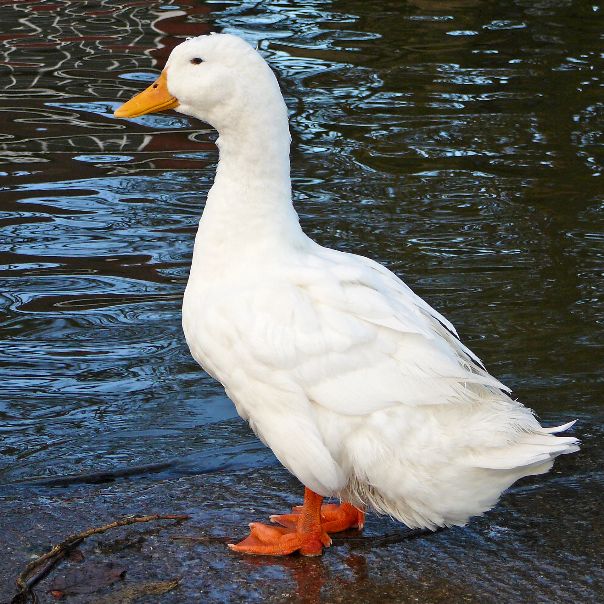 A duck on Yeadon Tarn in Yeadon, Leeds, West Yorkshire. Taken on Saturday the 13th of November 2010.